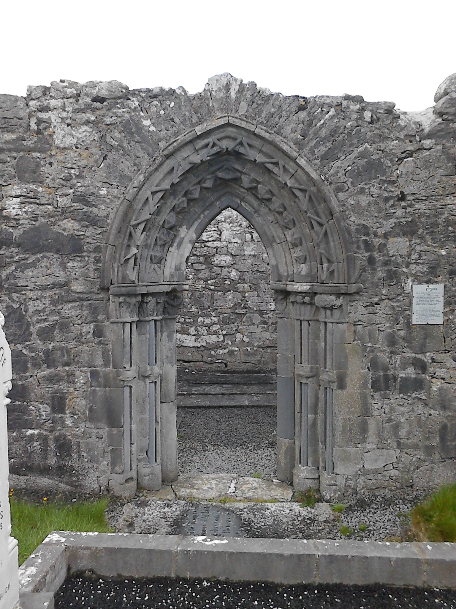 Drumacoo Early Medieval Ecclesiastical Site ornate doorway